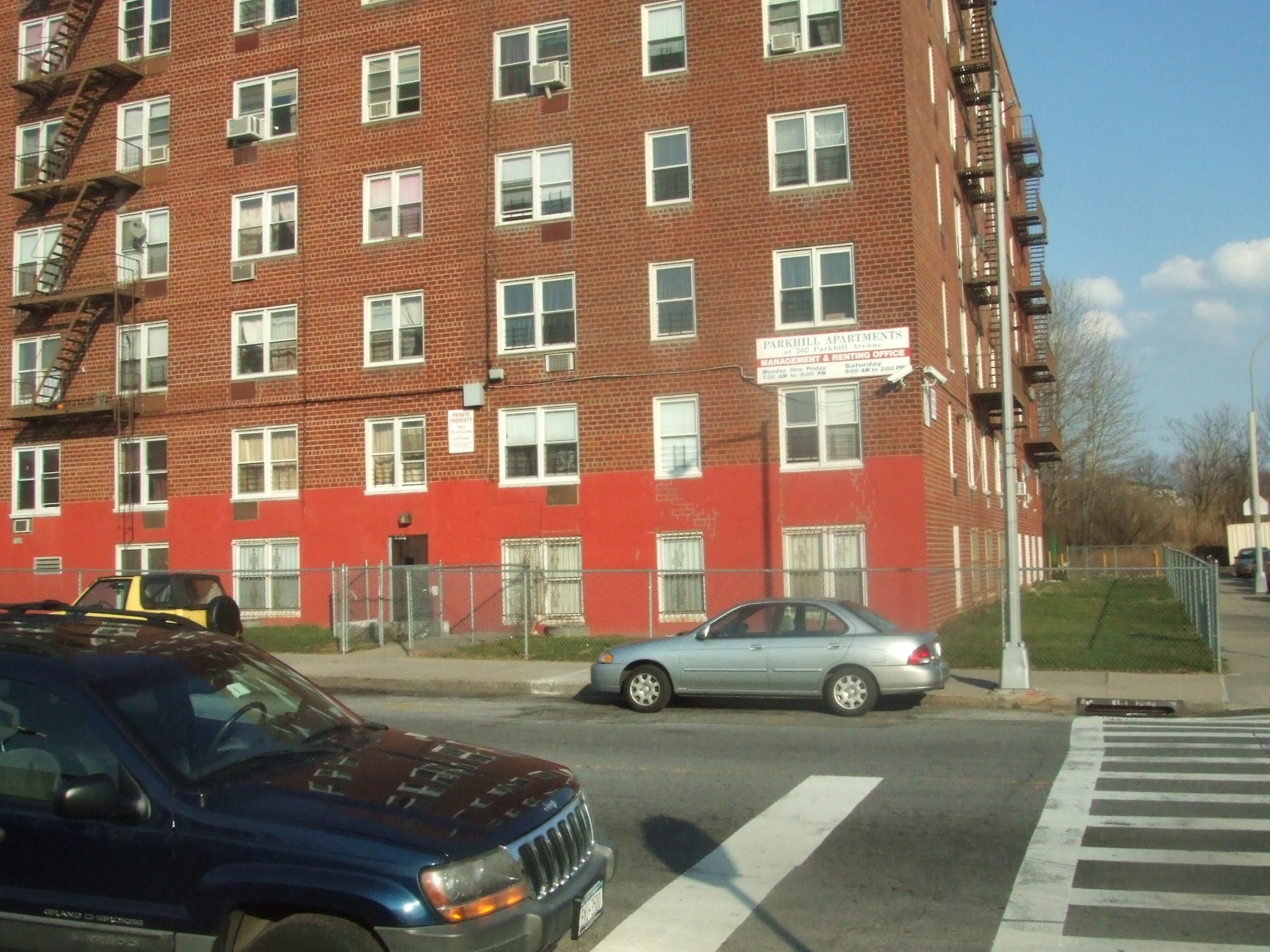 Park Hill apartment complex, South east corner, Clifton, Staten Island, New York